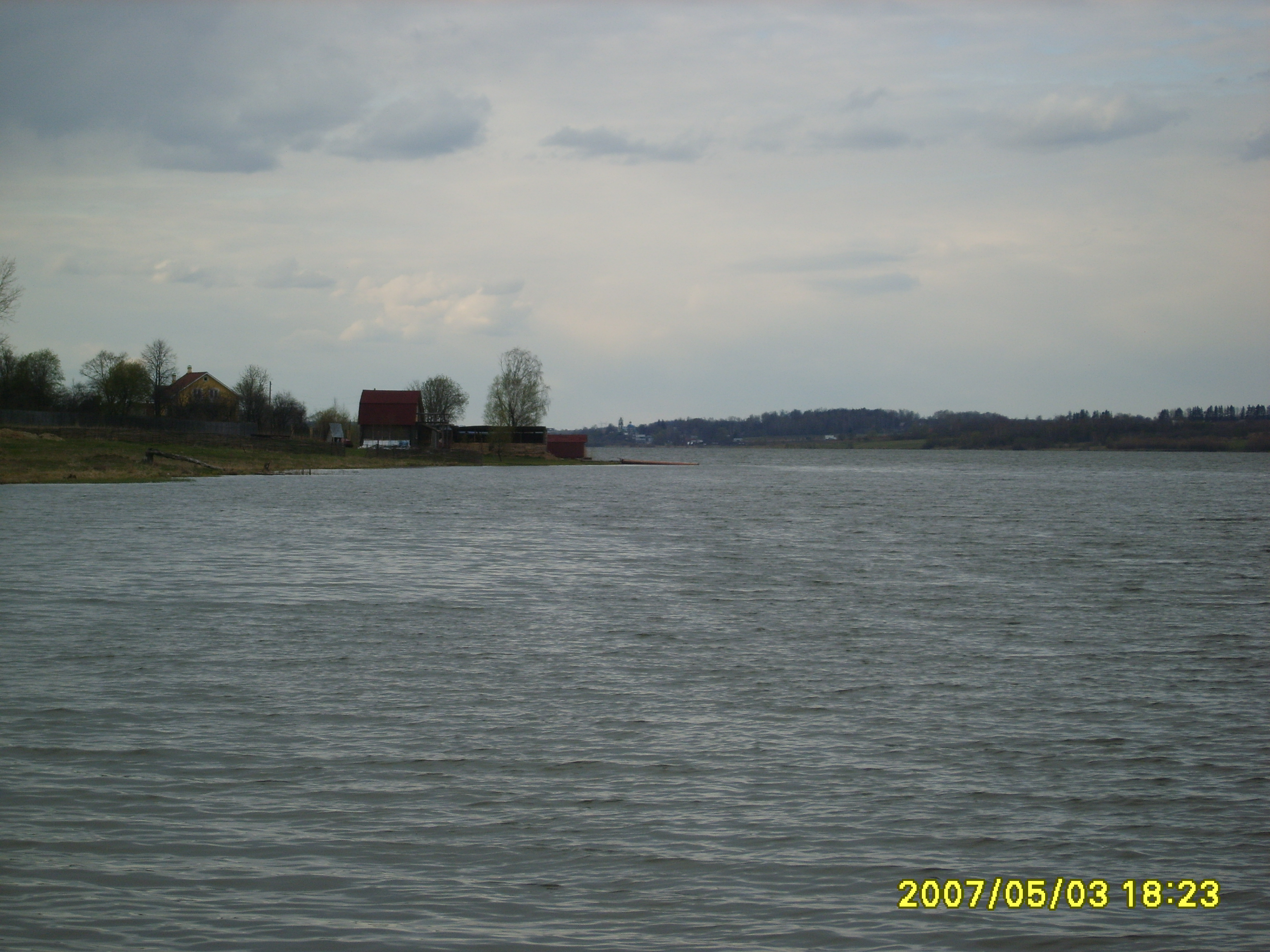 Peksha River in Vladimir Oblast, Russia